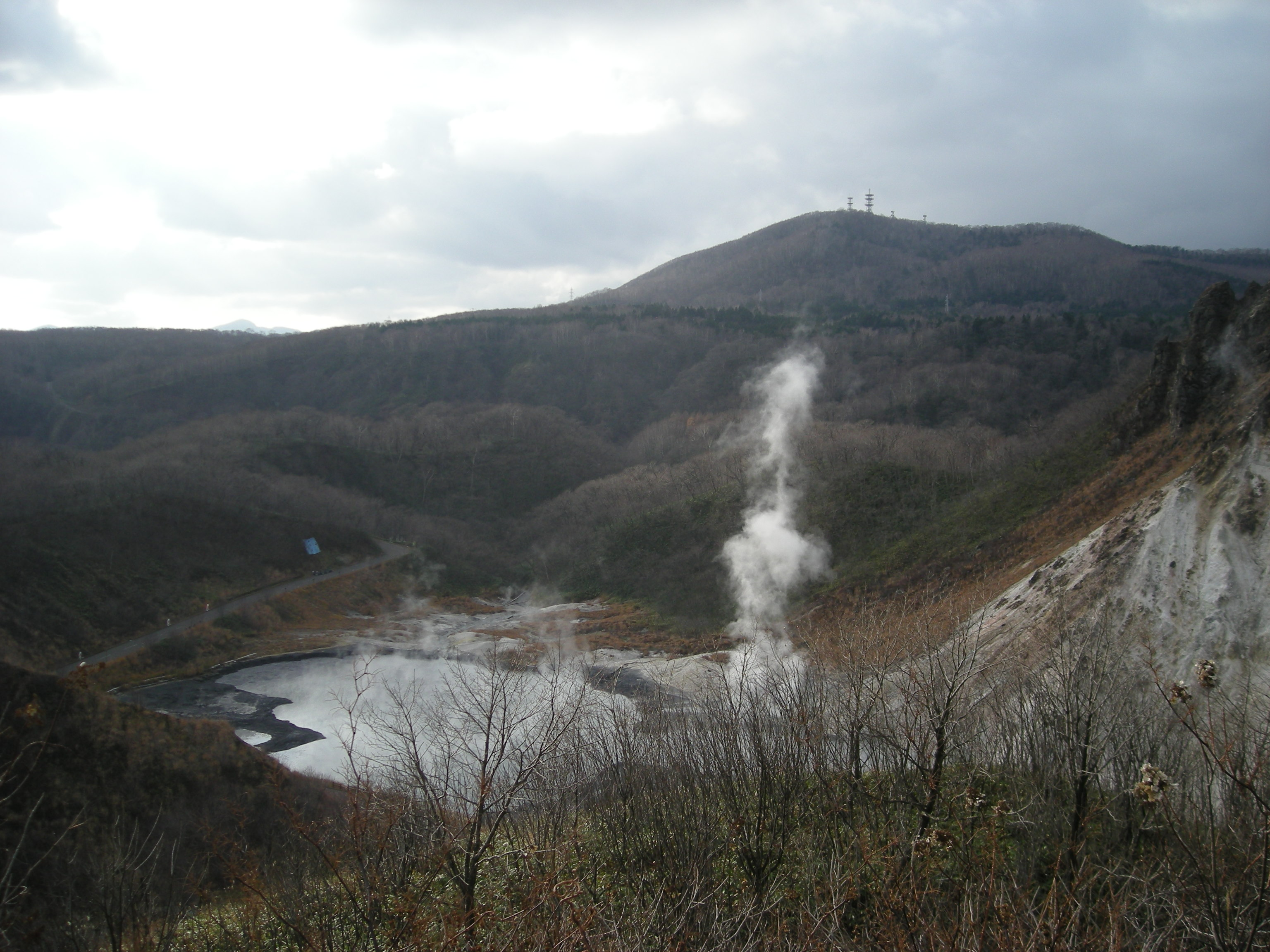 Oyunuma in Noboribetu／登別・大湯沼